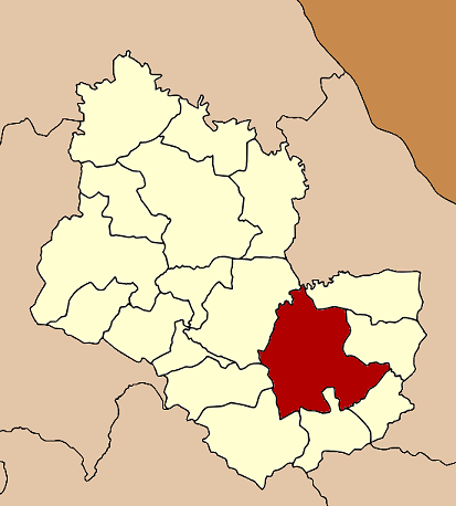 Map of Sakon Nakhon province, Thailand, highlighting Amphoe Mueang Sakon Nakhon.